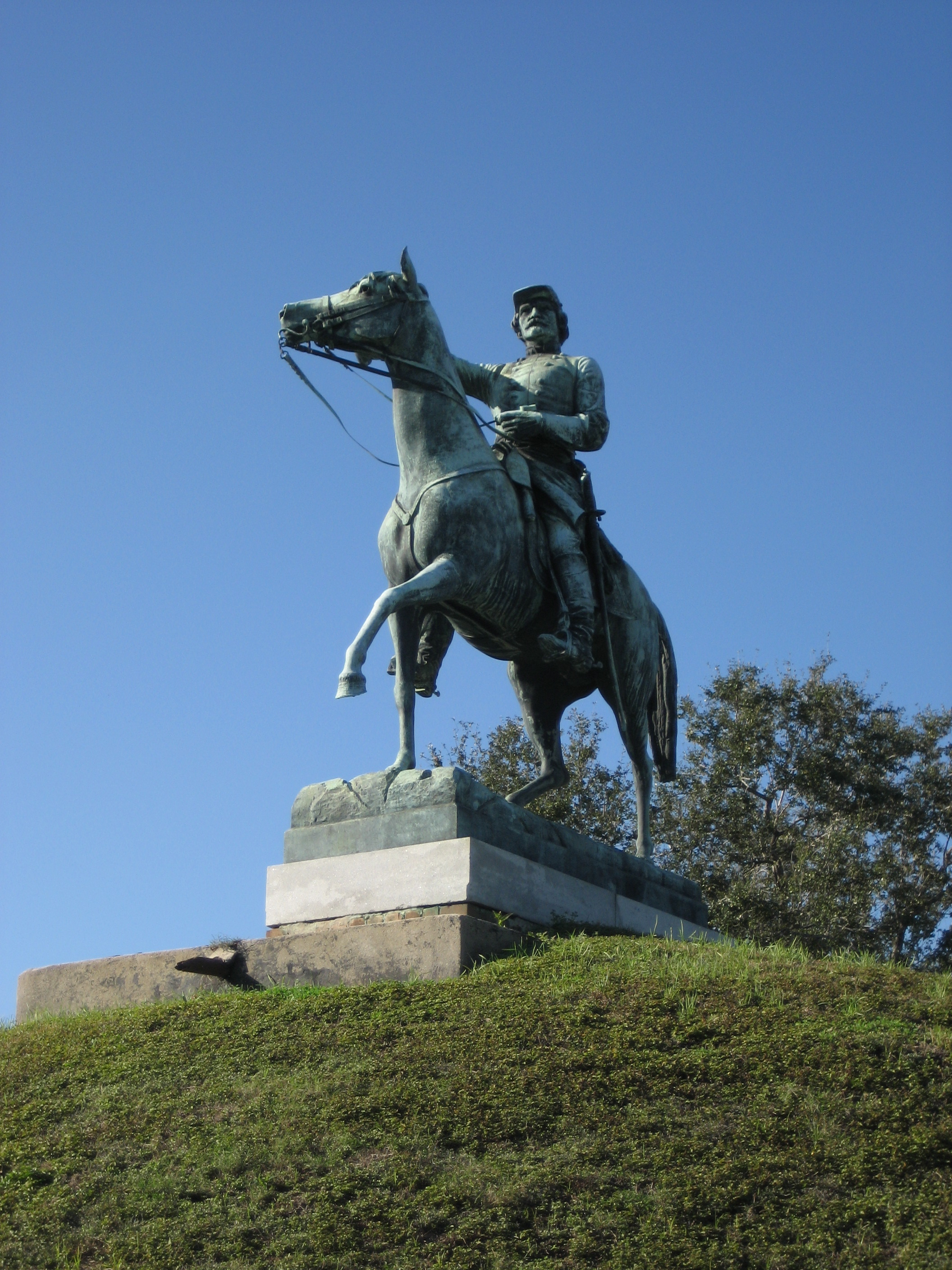 Metairie Cemetery, New Orleans Confederate tomb, statue of General Albert Sidney Johnston by Alex Doyle.